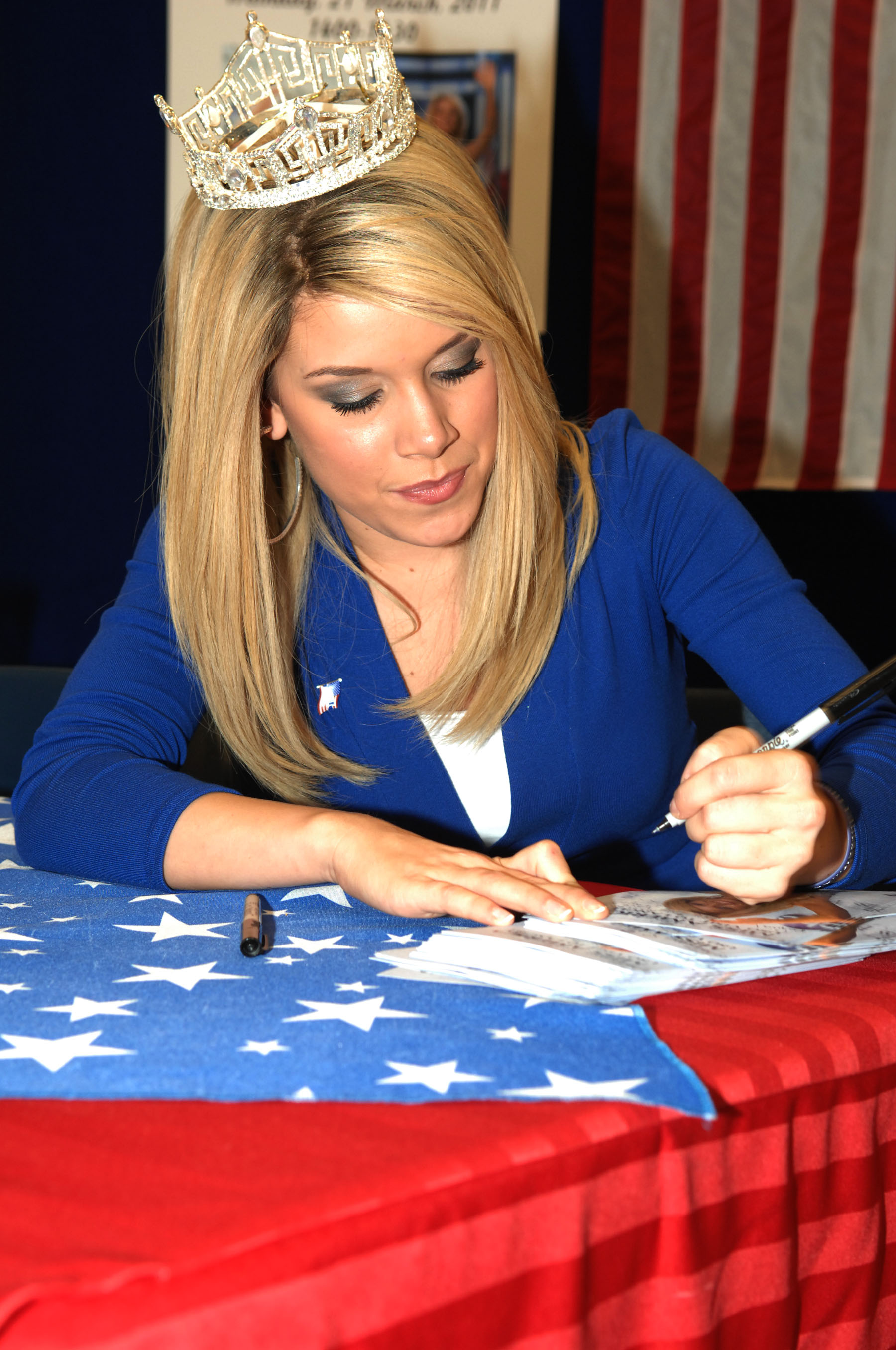 Teresa Scanlan, Miss America 2011, signs photographs at Langley Air Force Base, Va., March 21, 2011.